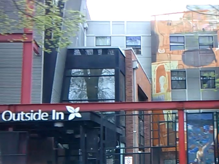 Exterior of Outside In clinic at 1132 SW 13th Avenue in Portland, Oregon, United States